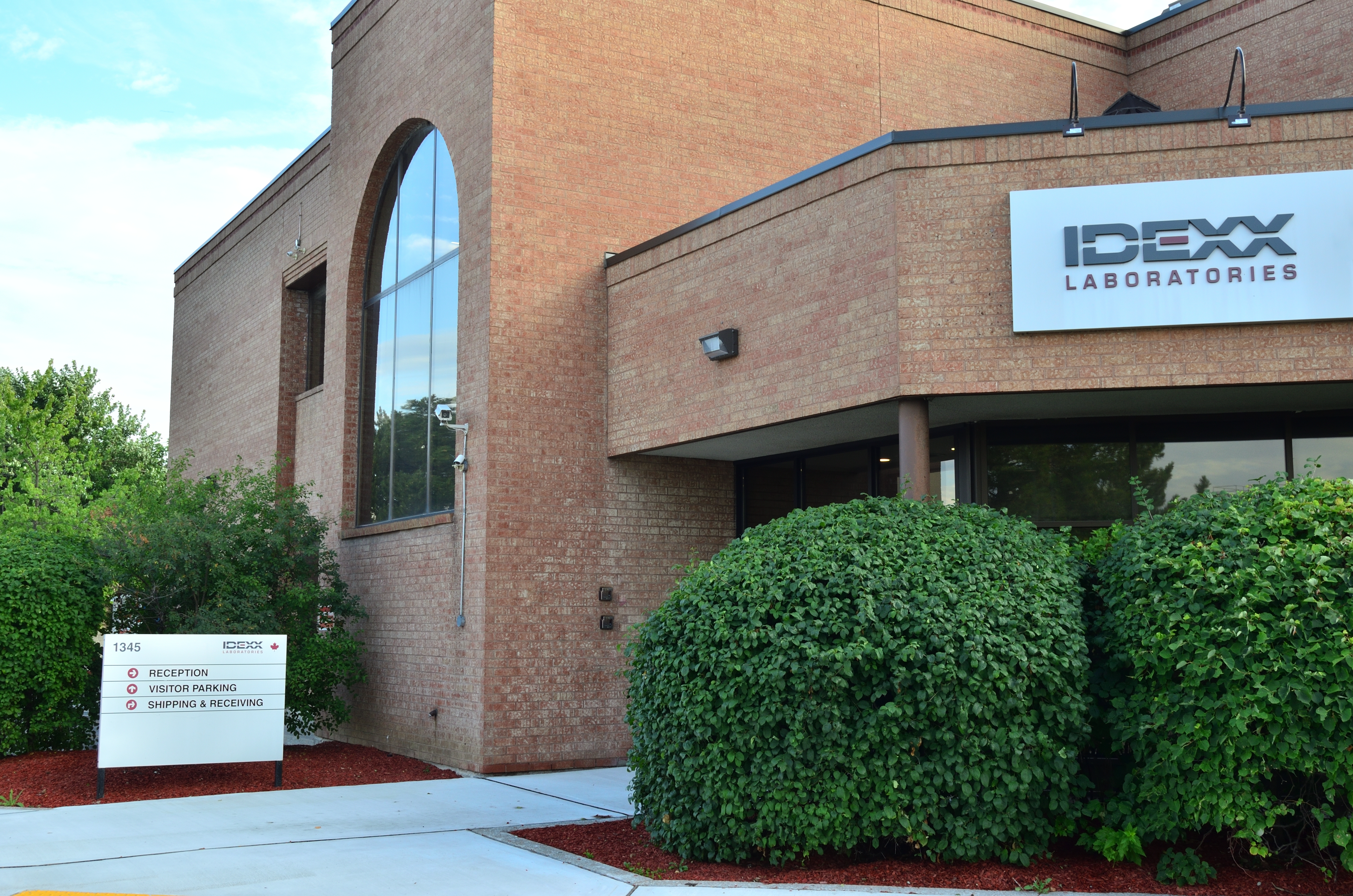 Idexx Laboratories - Address: 1345 Denison St, Markham, ON L3R 5V2